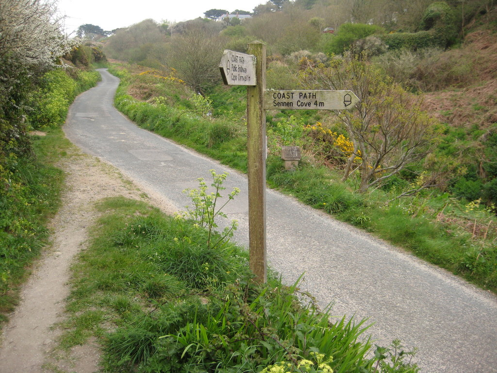 South West Coast Path in the Cot Valley